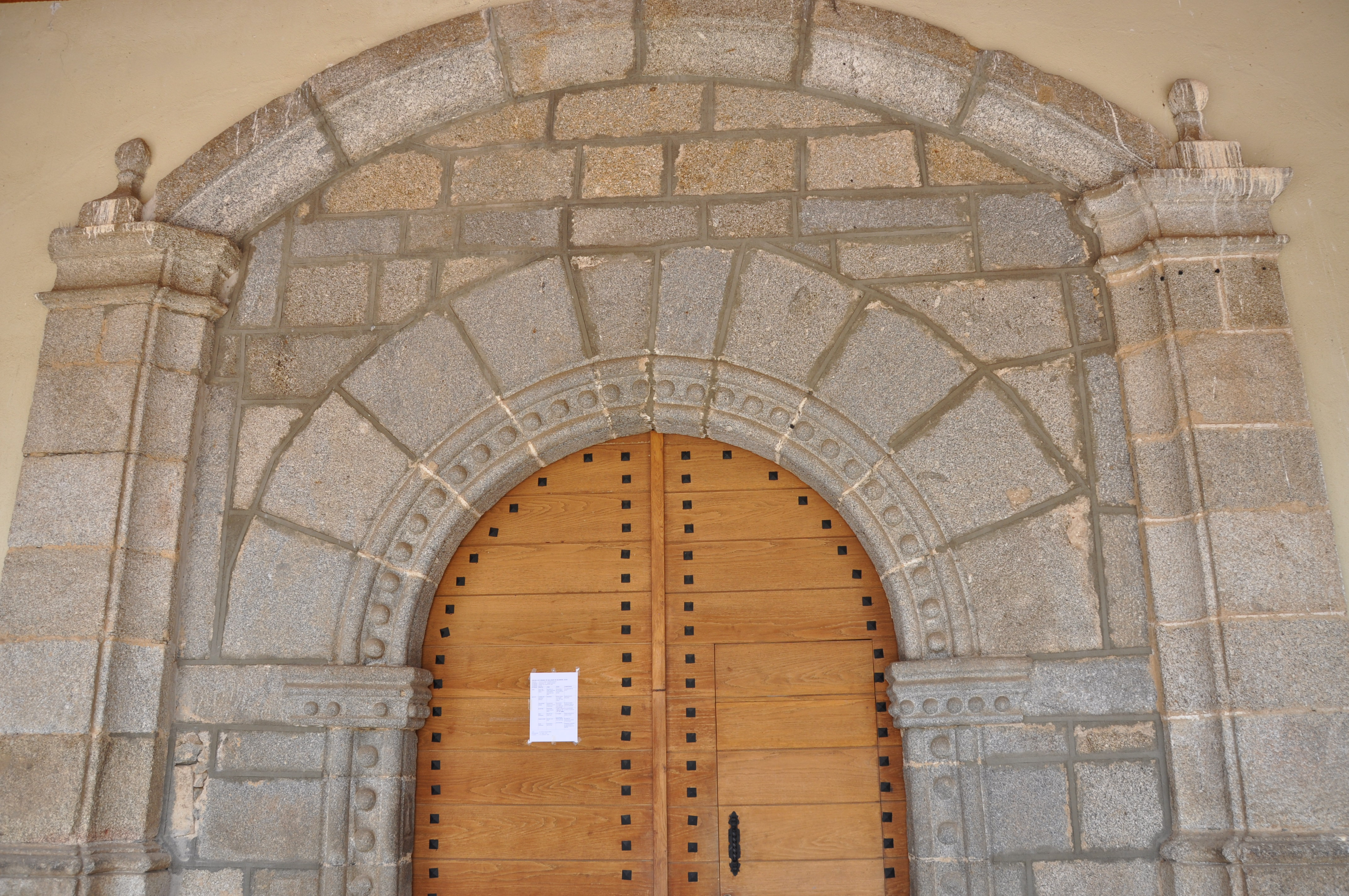 Door of the church of Gallegos de Solmirón, Salamanca, Spain, with the typical balls of the religious architecture of Avila.